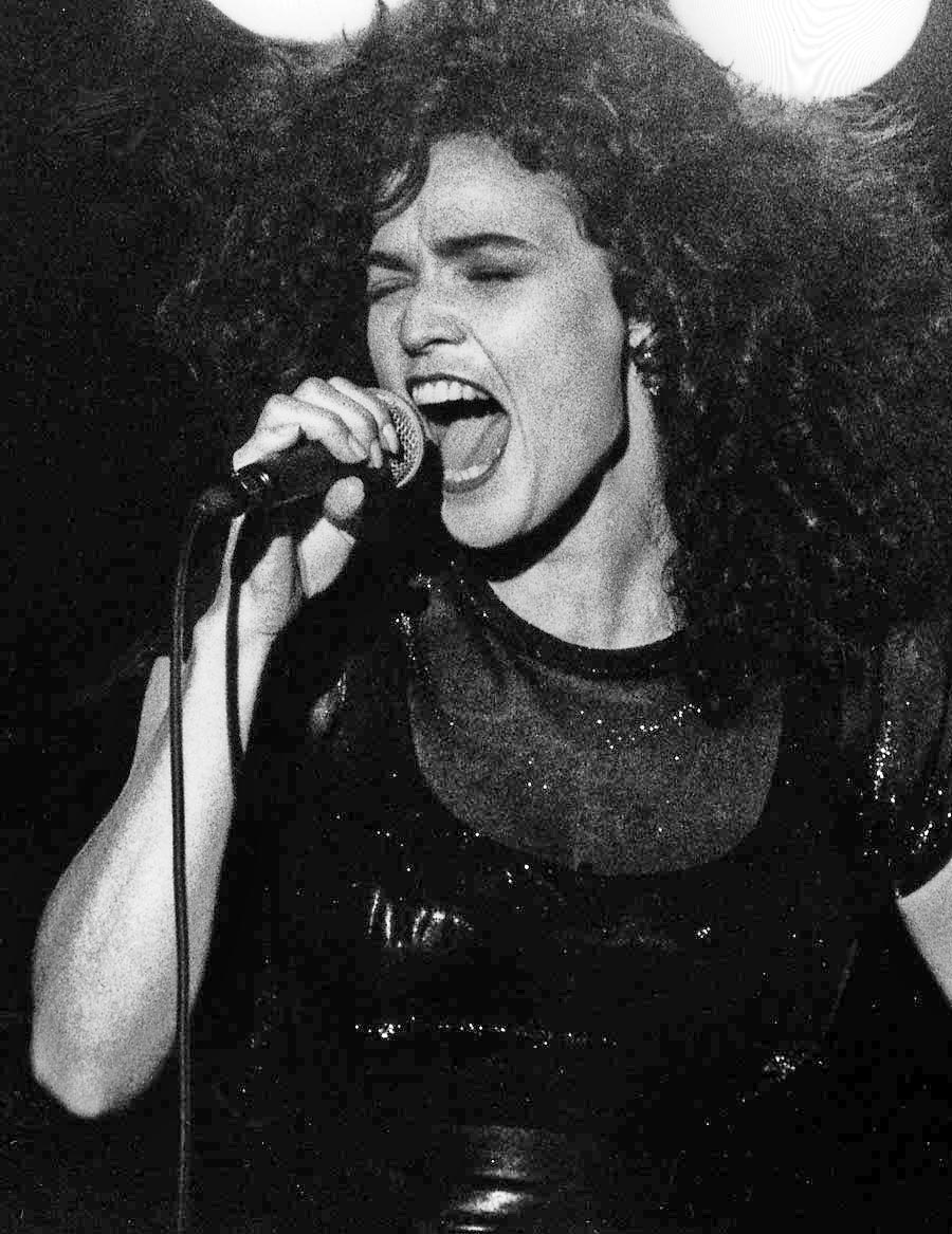 Alannah Myles - Canadian singer/songwriter. Photographed by Mike F. Campbell.